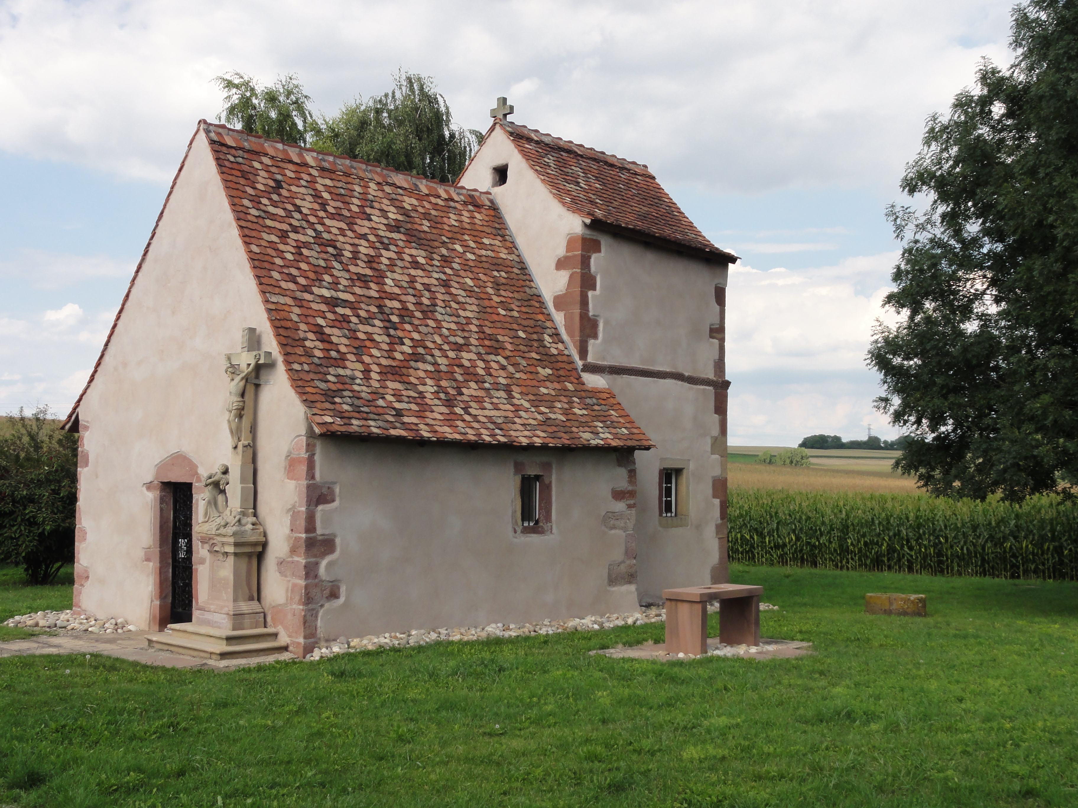 Alsace, Bas-Rhin, Fessenheim-le-Bas, Chapelle Sainte-Marguerite: It is indexed in the Base Mérimée, a database of architectural heritage maintained by the French Ministry of Culture, under the references PA00084711 and IA67005533.